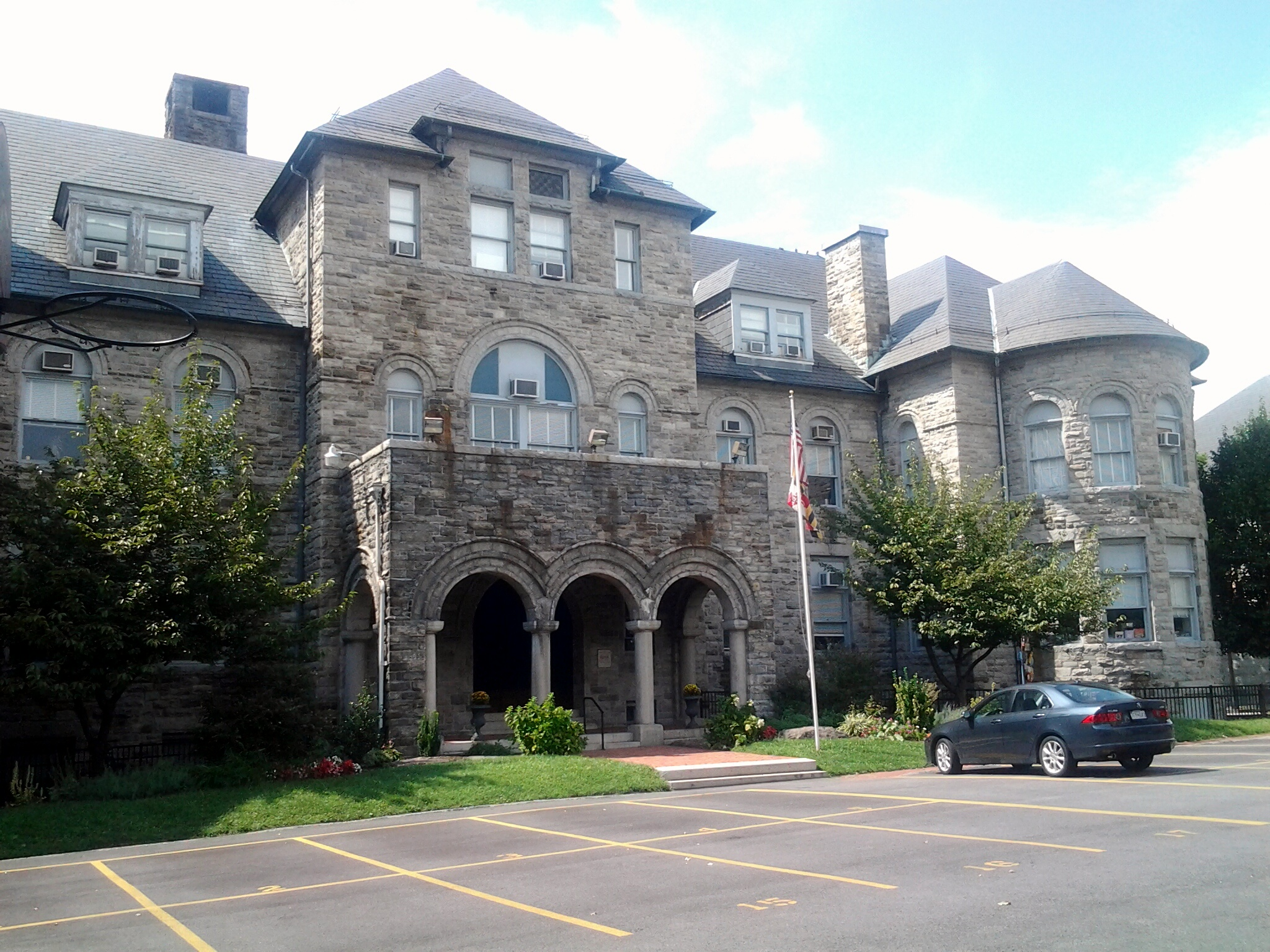 Old Goucher College Buildings This photo was uploaded with Wiki Loves Monuments mobile 1.2.1 (Android).